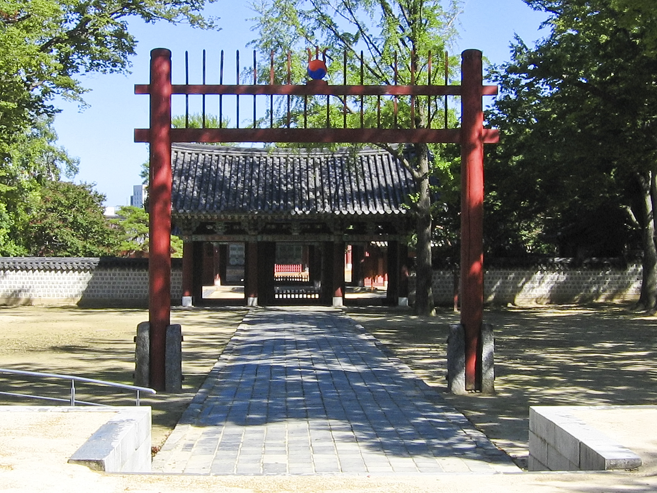 A Korean hongsalmun, a close relative of the Japanese torii